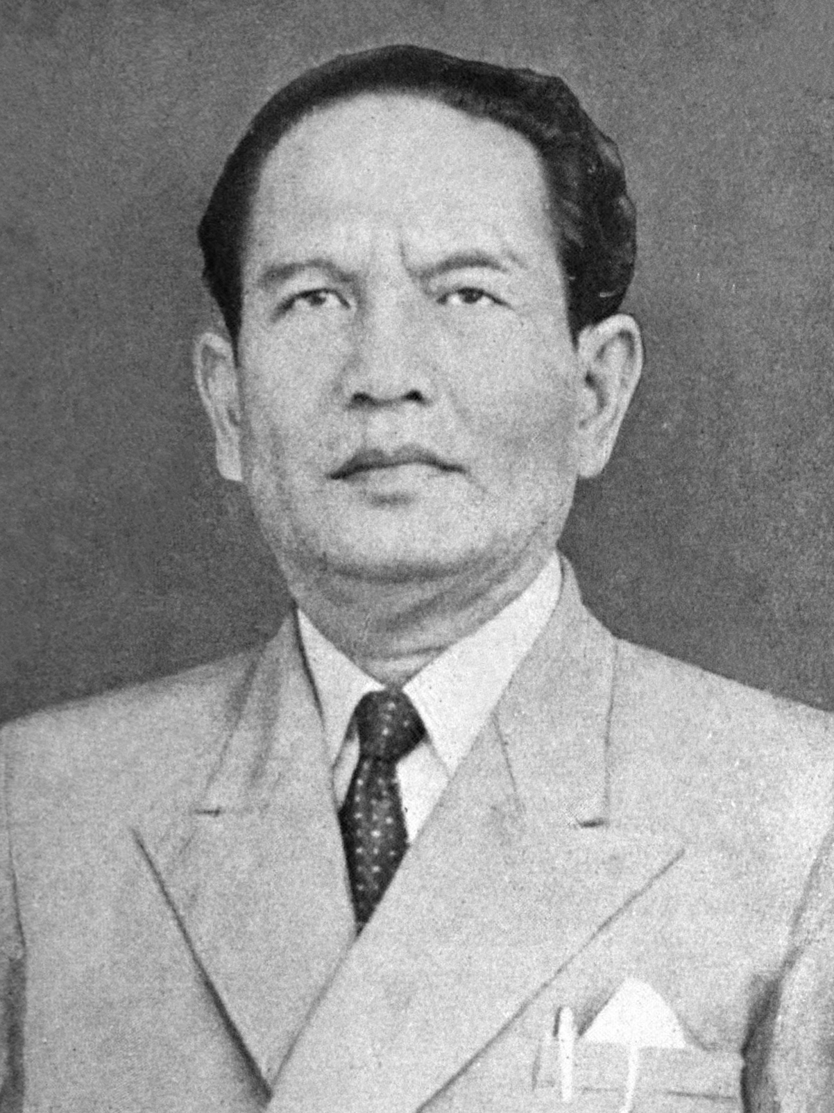 Portrait of Sartono.